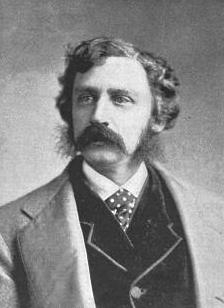 American writer Bret Harte in 1871. "From a photograph taken by Sarony, New York, shortly after the publication of 'The Heathen Chinee'" From Human Documents: Portraits and Biographies of Eminent Men. New York: S. S. McClure, Limited, 1895: p. 167